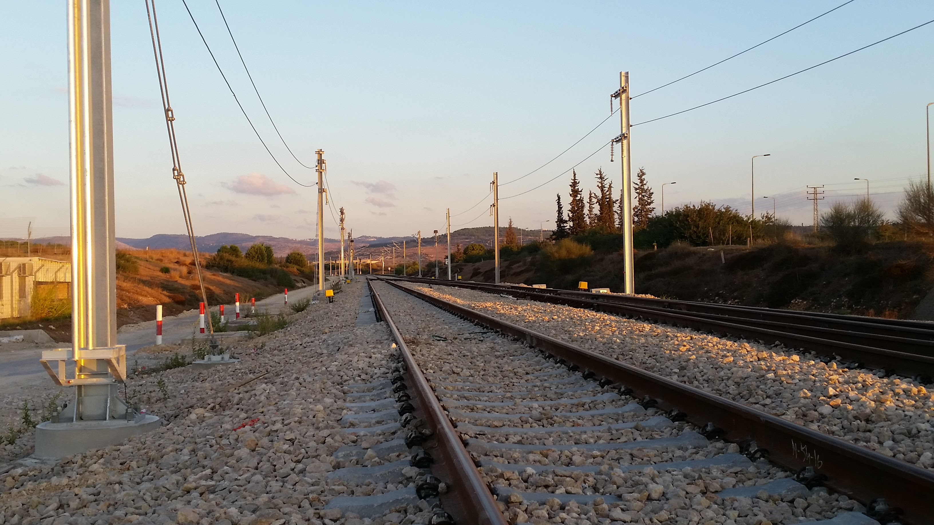 Overhead line builded on new Jerusalem - Tel Aviv Railway